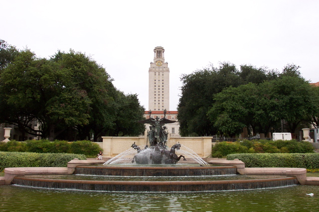 Littlefield Fountain and Main Building of The University of Texas at Austin. The area leading up to the Tower from the Fountain is known as the South Mall.